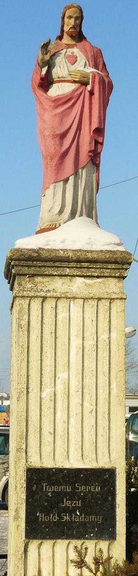 Jesus Statue in Plewiska (Poznan Powiat)